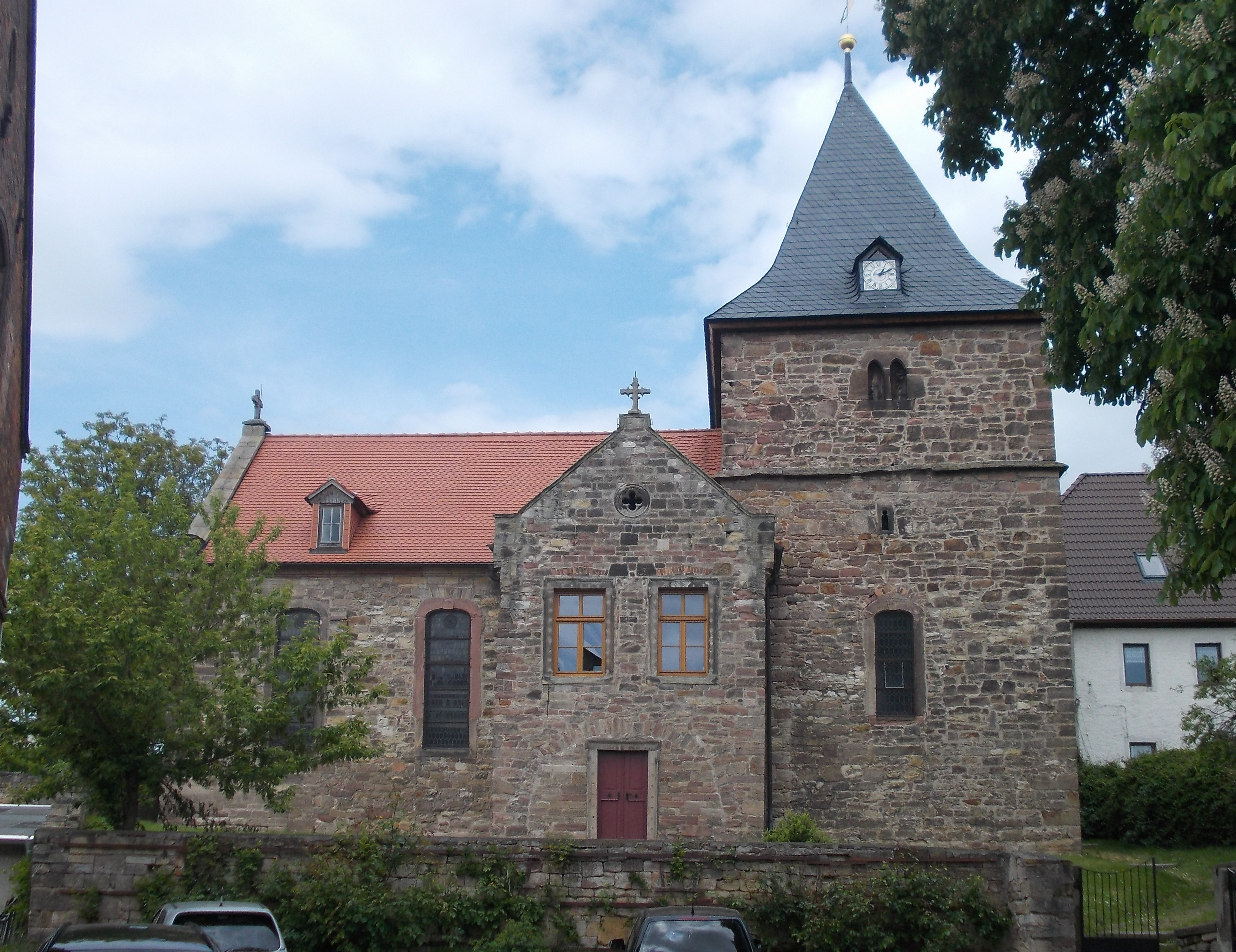 Leimbach church (Querfurt, district: Saalekreis, Saxony-Anhalt)